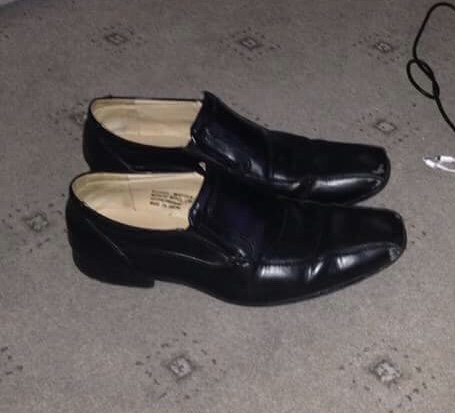 A pair of shoes, used as school shoes for a teenage British boys, from Matalan